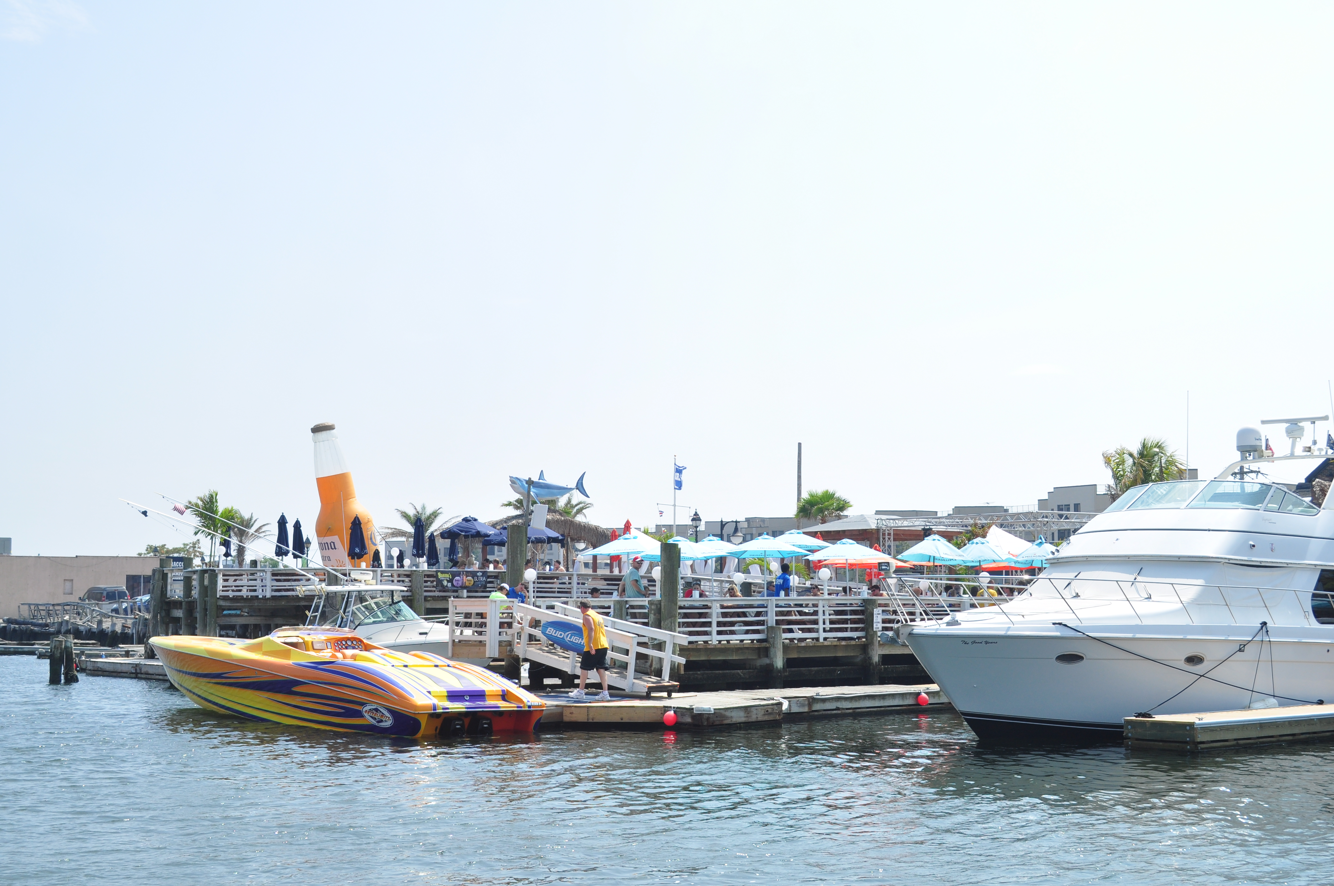 Part of the Nautical Mile along Woodcleft Canal, Freeport, New York, seen from Freeport Water Taxi.